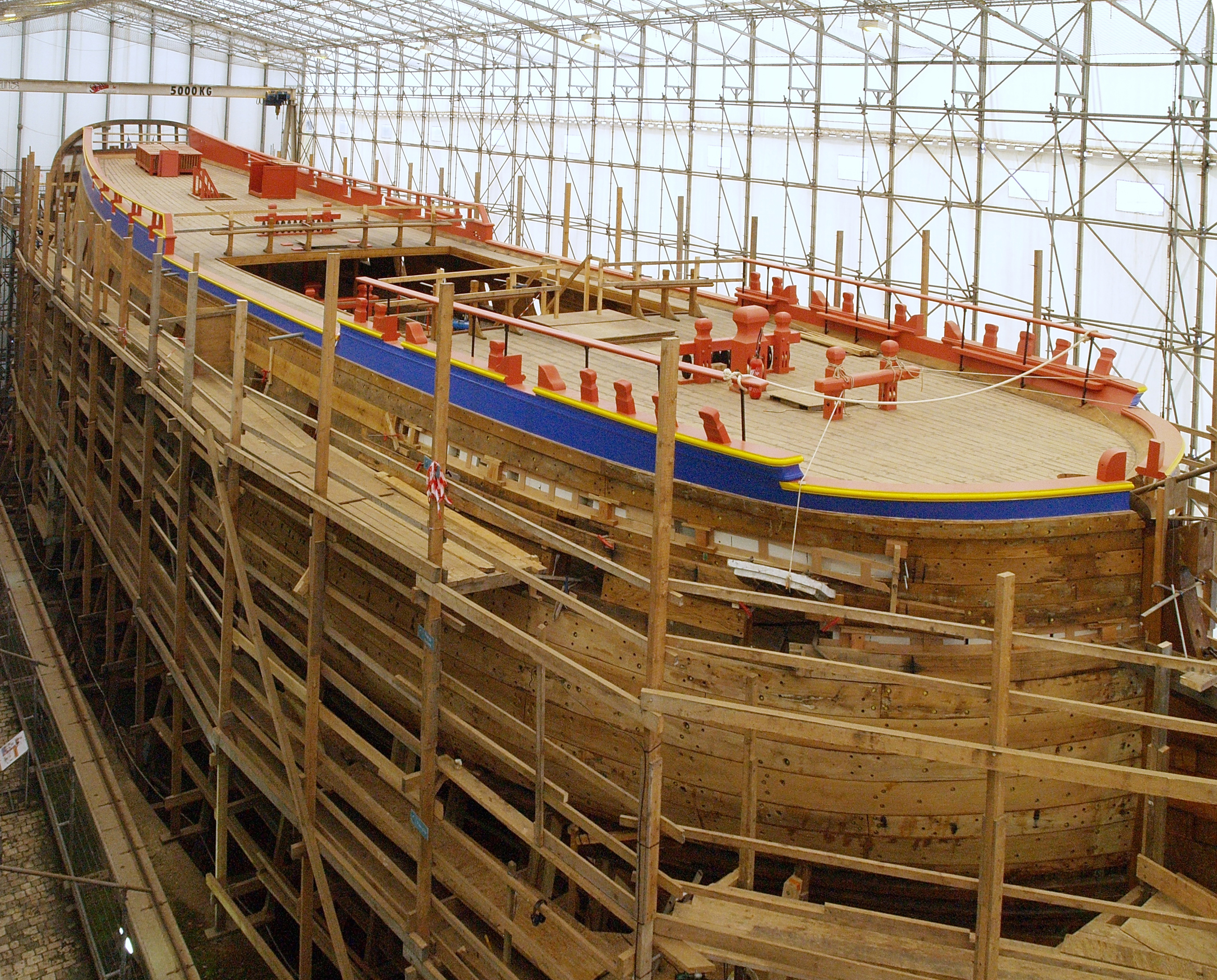 Construction site of the Hermione in Rochefort (Charente-Maritime), april 2009: the bulwarks have been painted, the Officers' ladder is in its place.